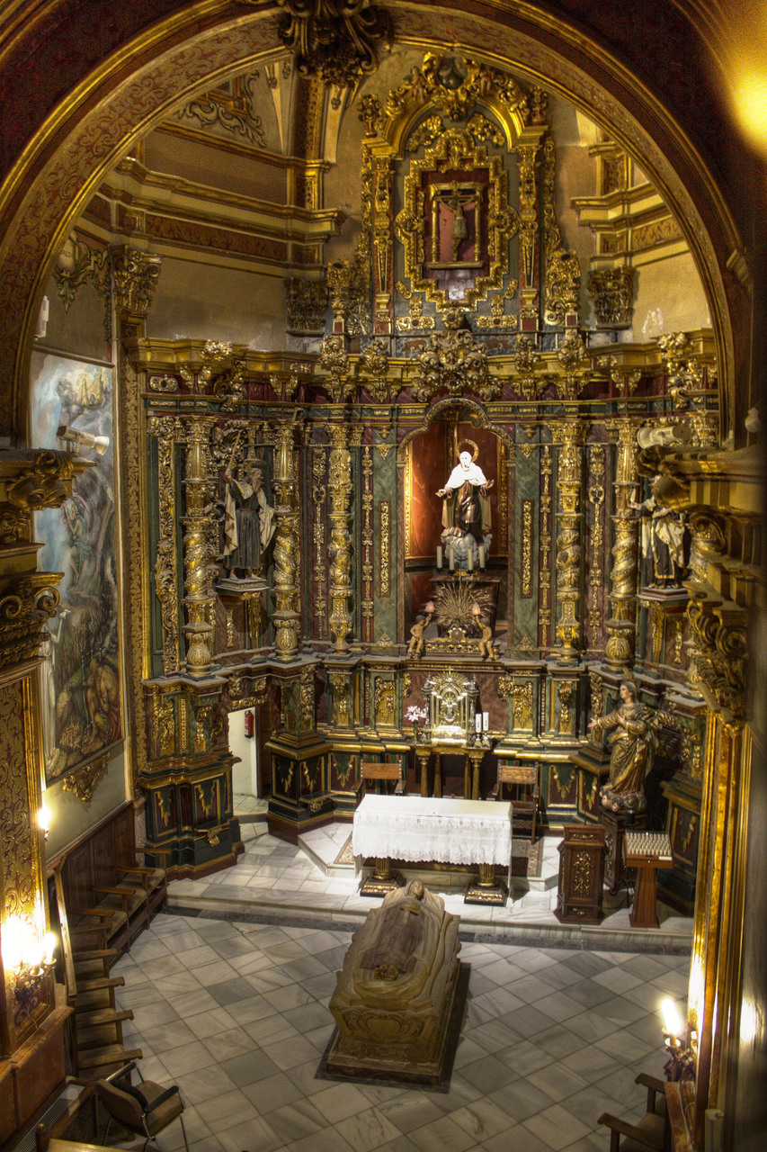 Oratory of St. John of the Cross, Ubeda, Jaén, Spain, where the firs grave of the saint was